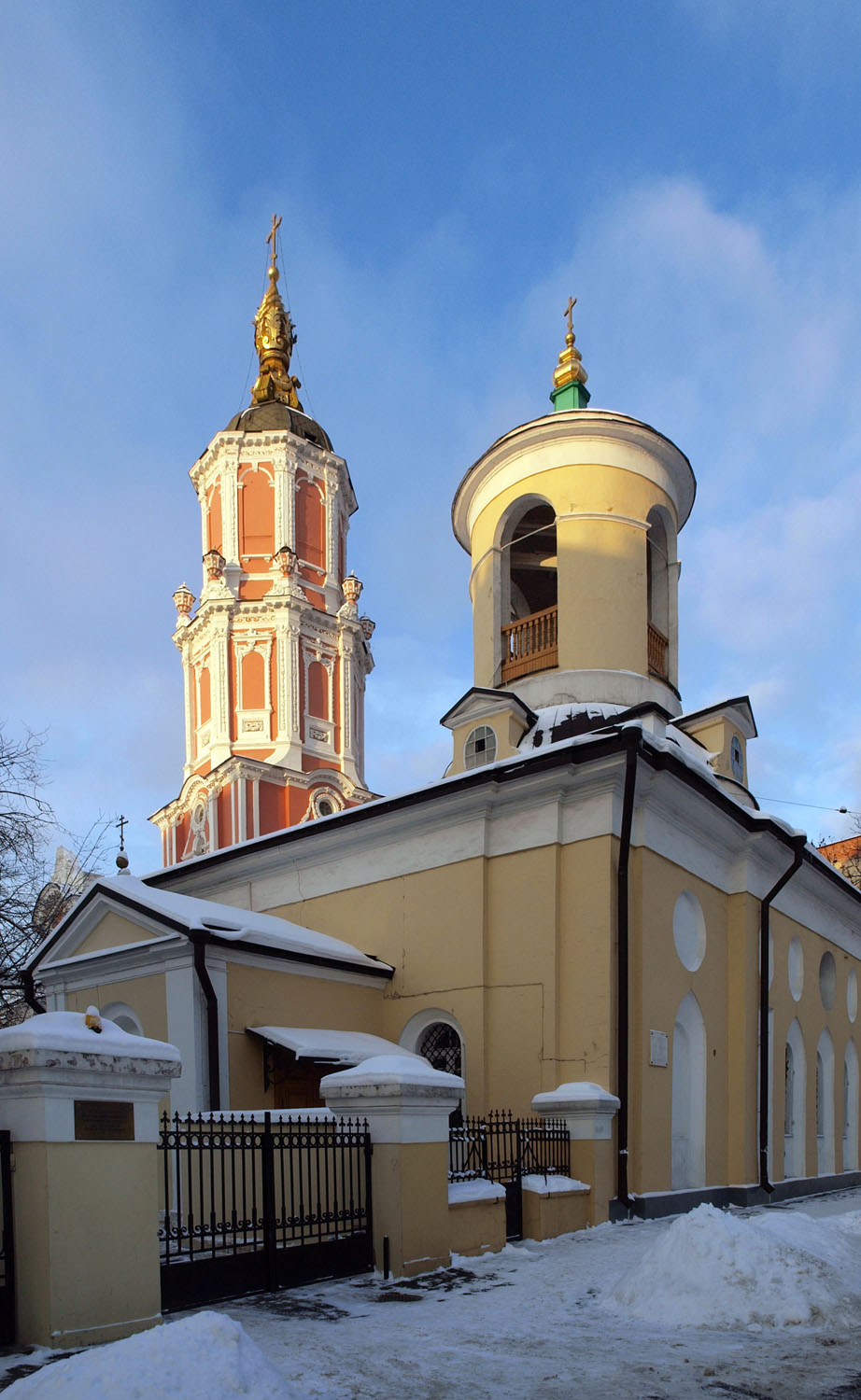 Churches of Archangel Gabriel (Menshikov Tower) and St. Theodore Stratelates, Moscow